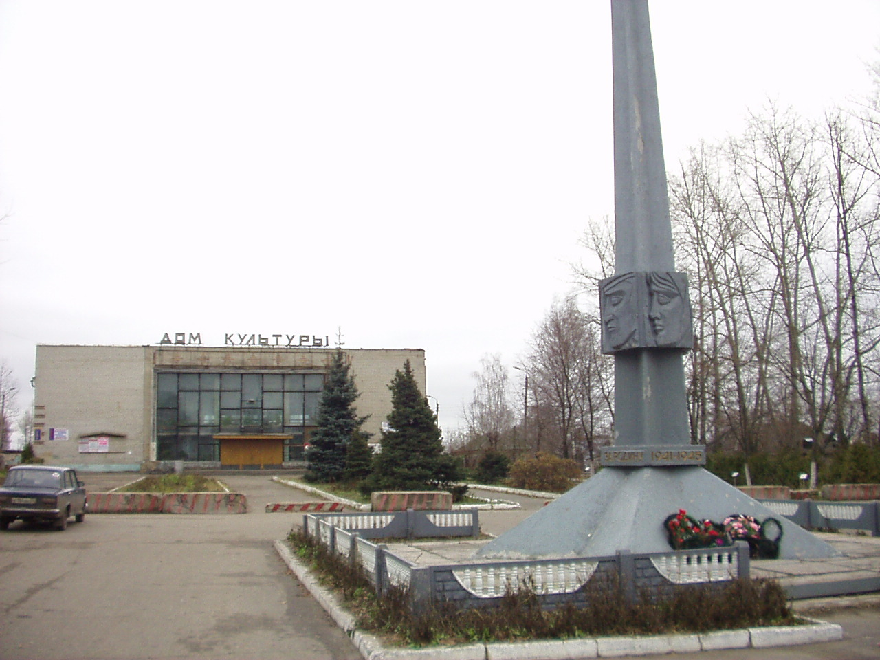 Central square in Petushki town, Vladimir Oblast